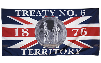 Treaty 6 Flag